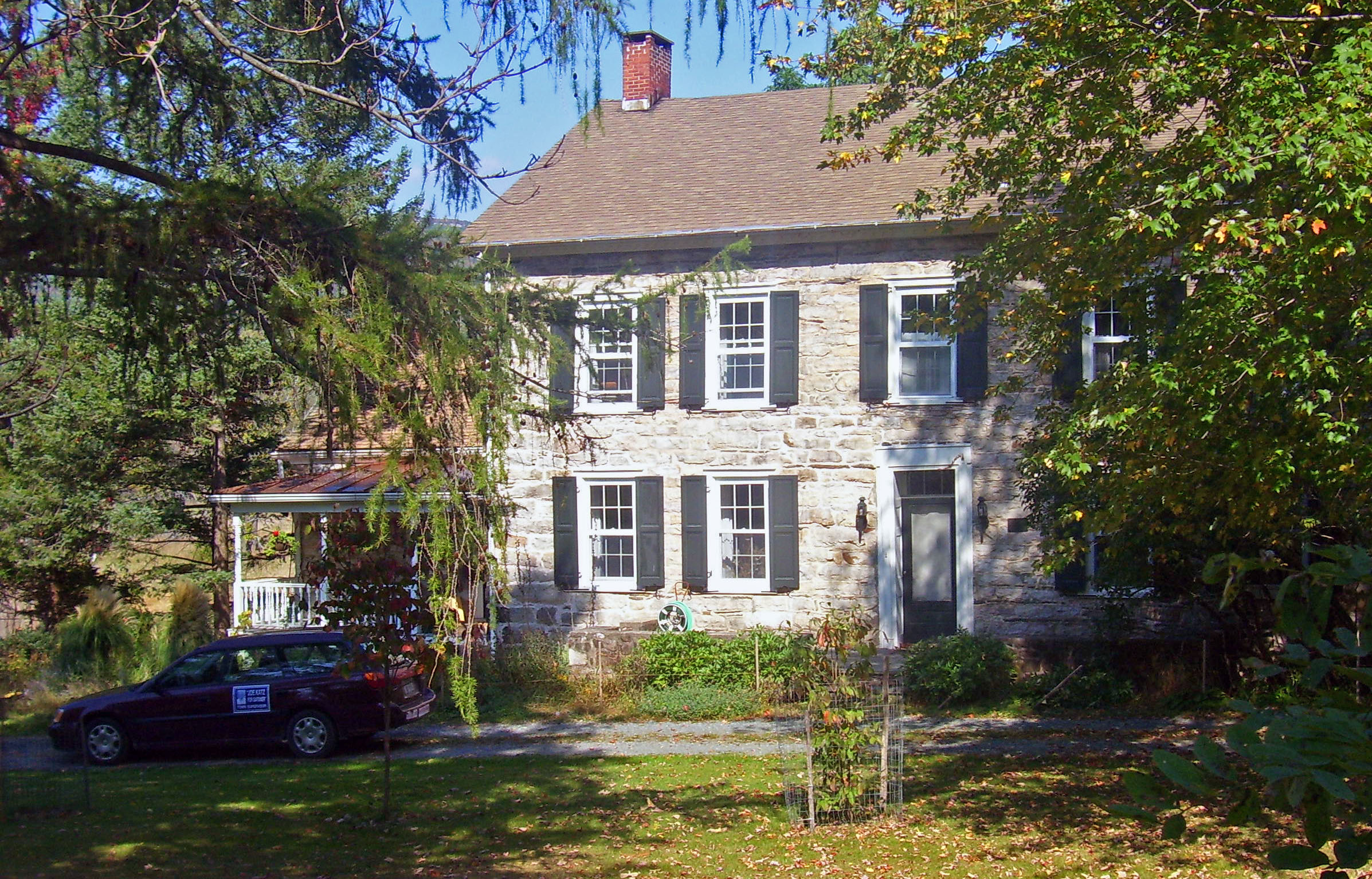 Johannes Jansen farmhouse in Town of Shawangunk, NY, USA